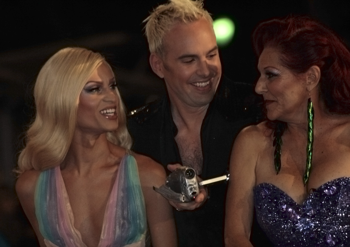 Patricia Field with Phillipe and David Blond (The Blonds) at the Life Ball 2009, Rathaus, Vienna.